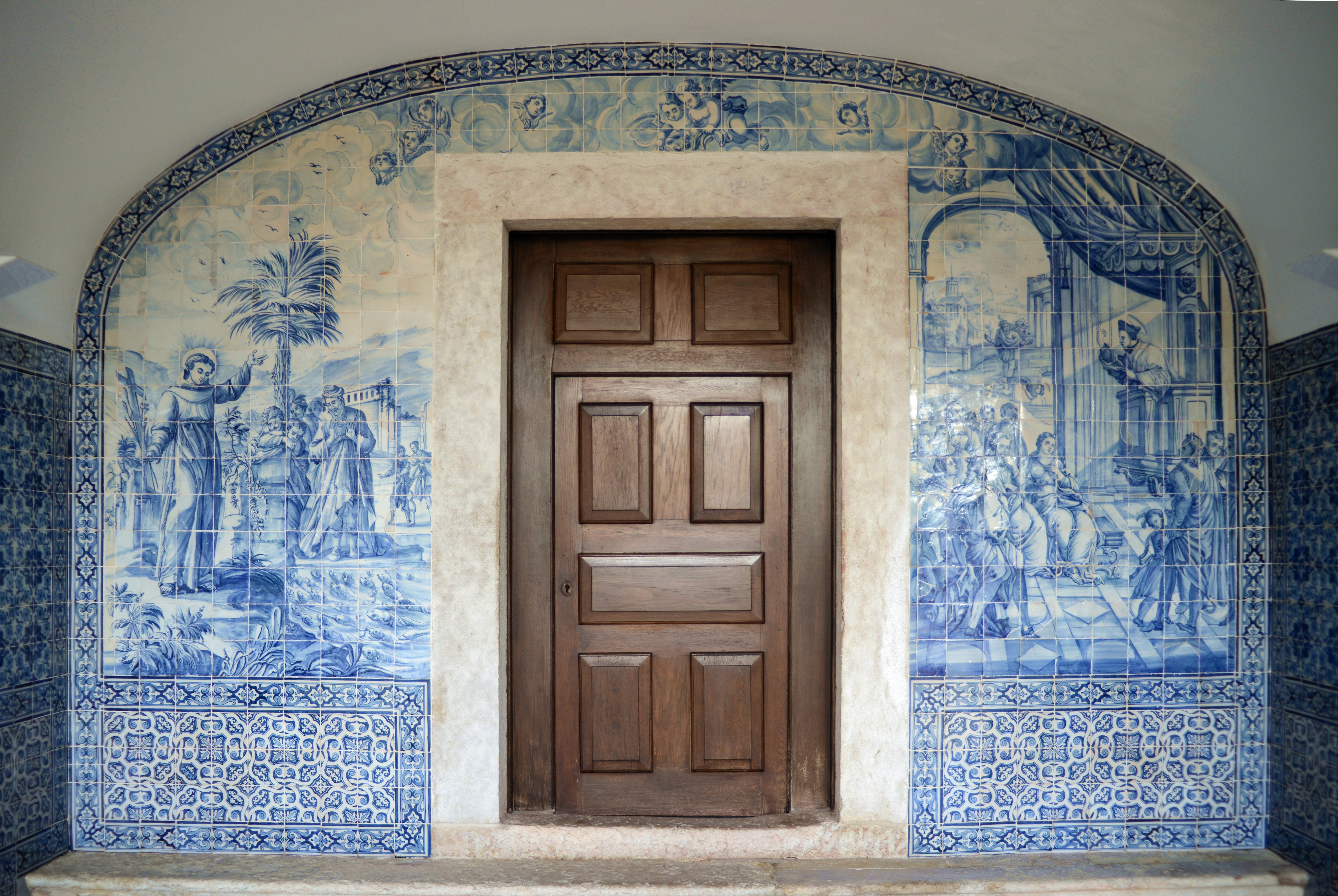 Church of the Convent of the Capuchins (Convento dos Capuchos), Almada, Portugall